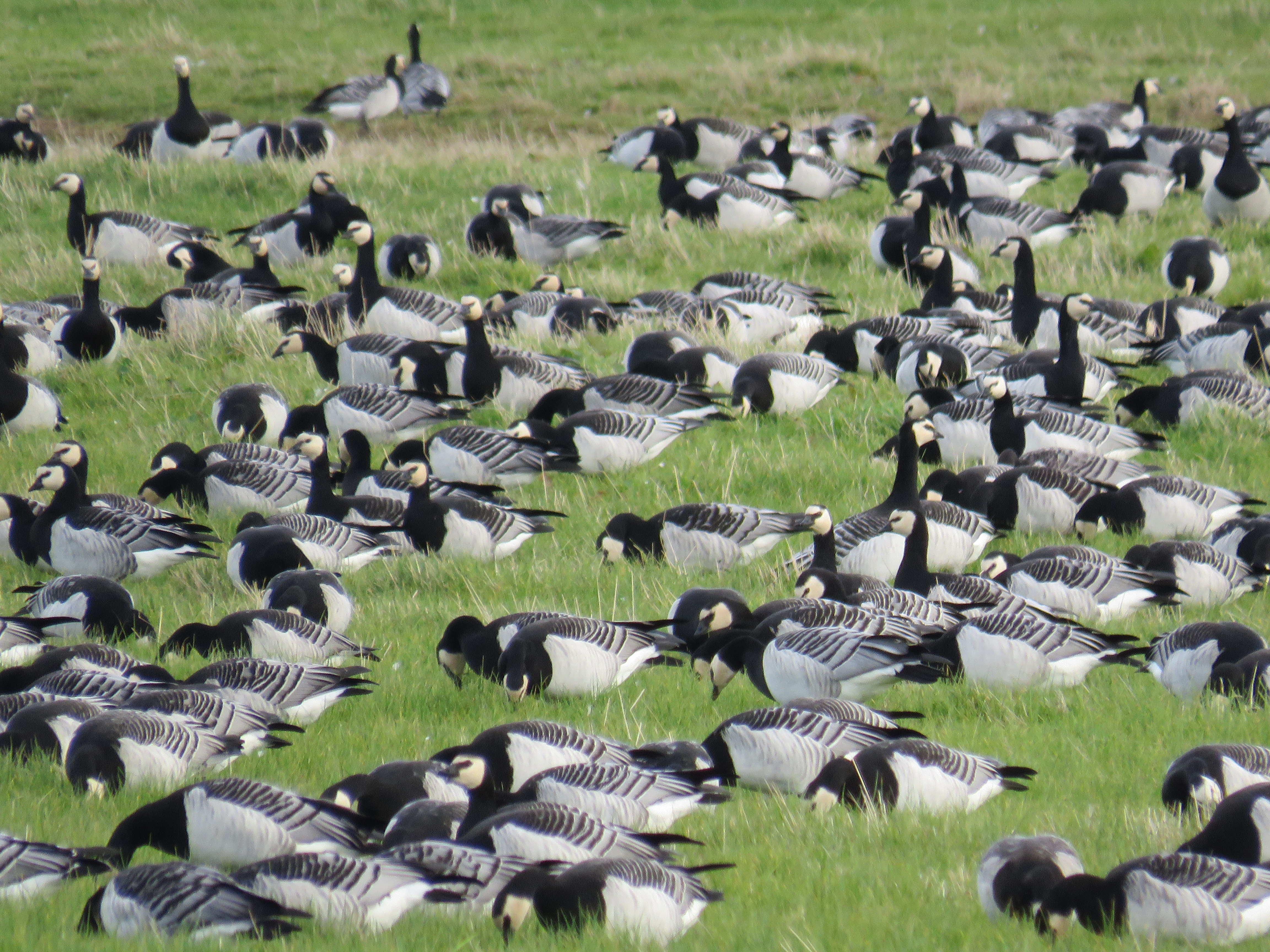 Geese at Caerlaverock WWT nature reserve, Scotland